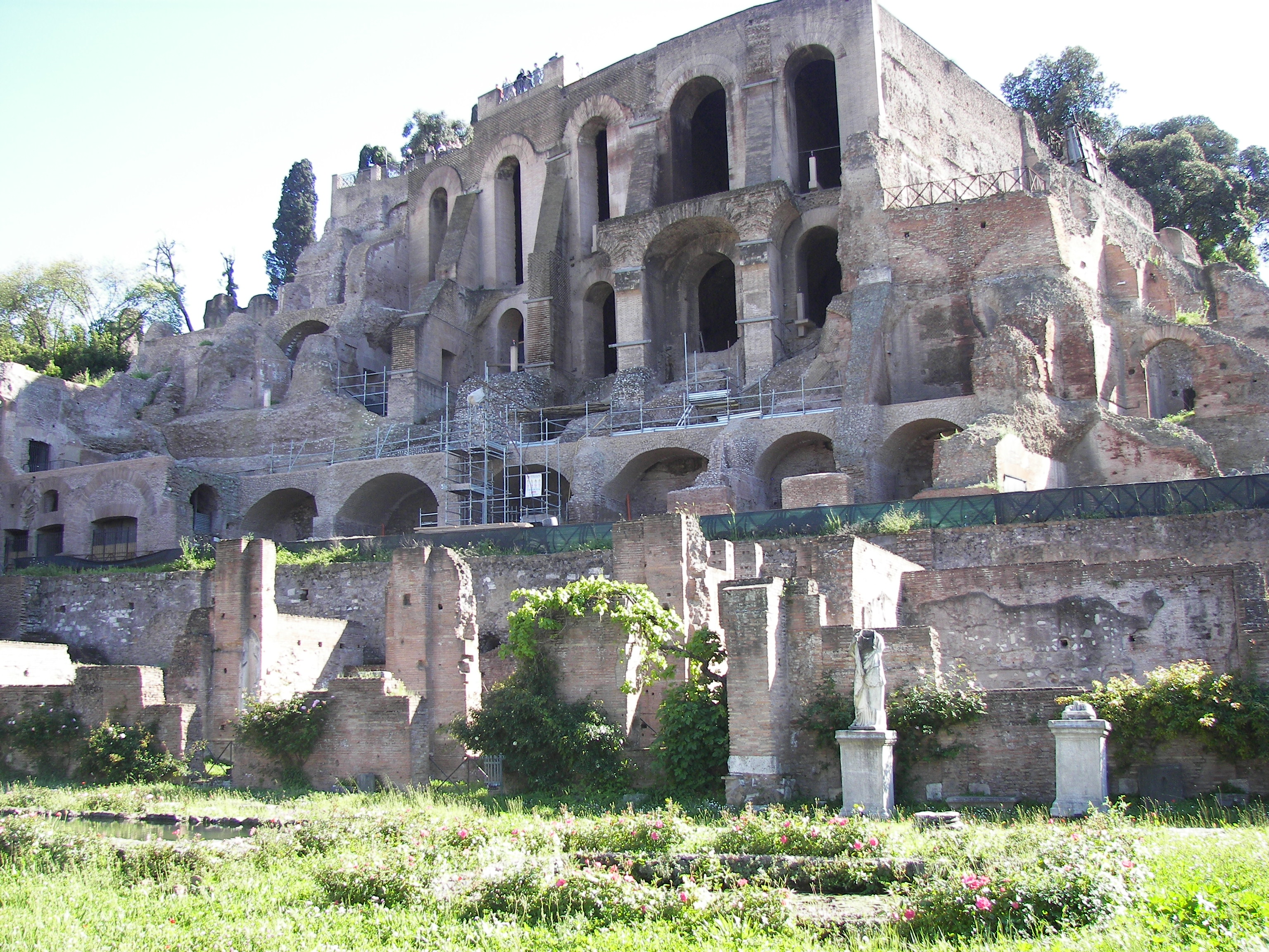 The House of the Vestals in the Forum Romanum in Rome.